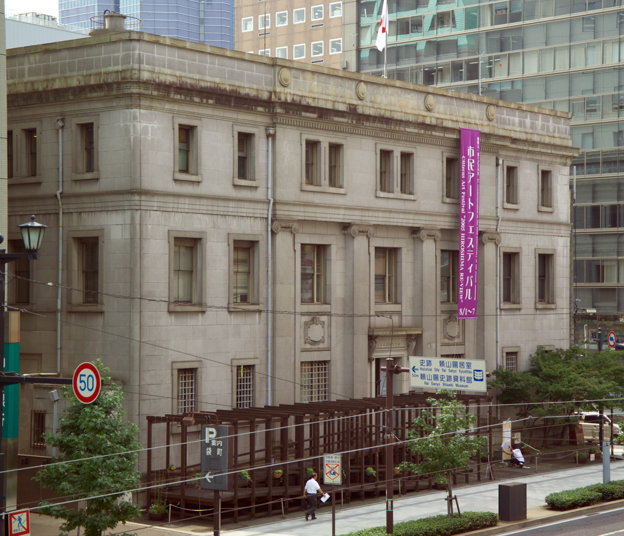 This building is the former Bank of Japan branch in Hiroshima, Japan. It stands less than 500 m from ground zero, yet survived the atomic bombing. I took the photo and contribute my rights in the file to the public domain; people and organizations retain rights to images in it.